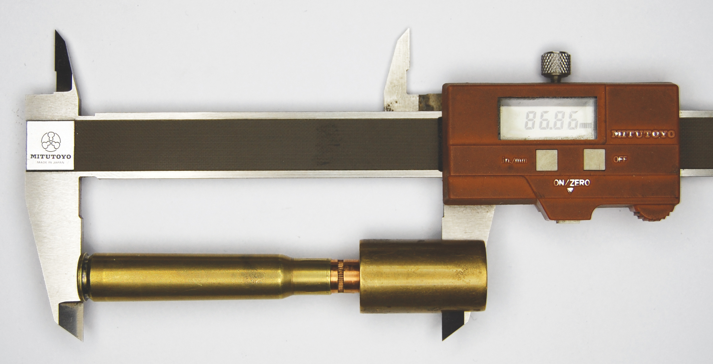 Caliper Comparator